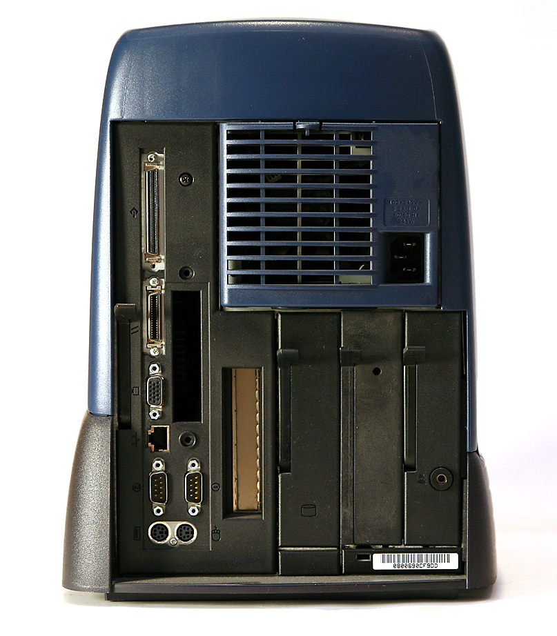 Back view of a SGI O2 workstation